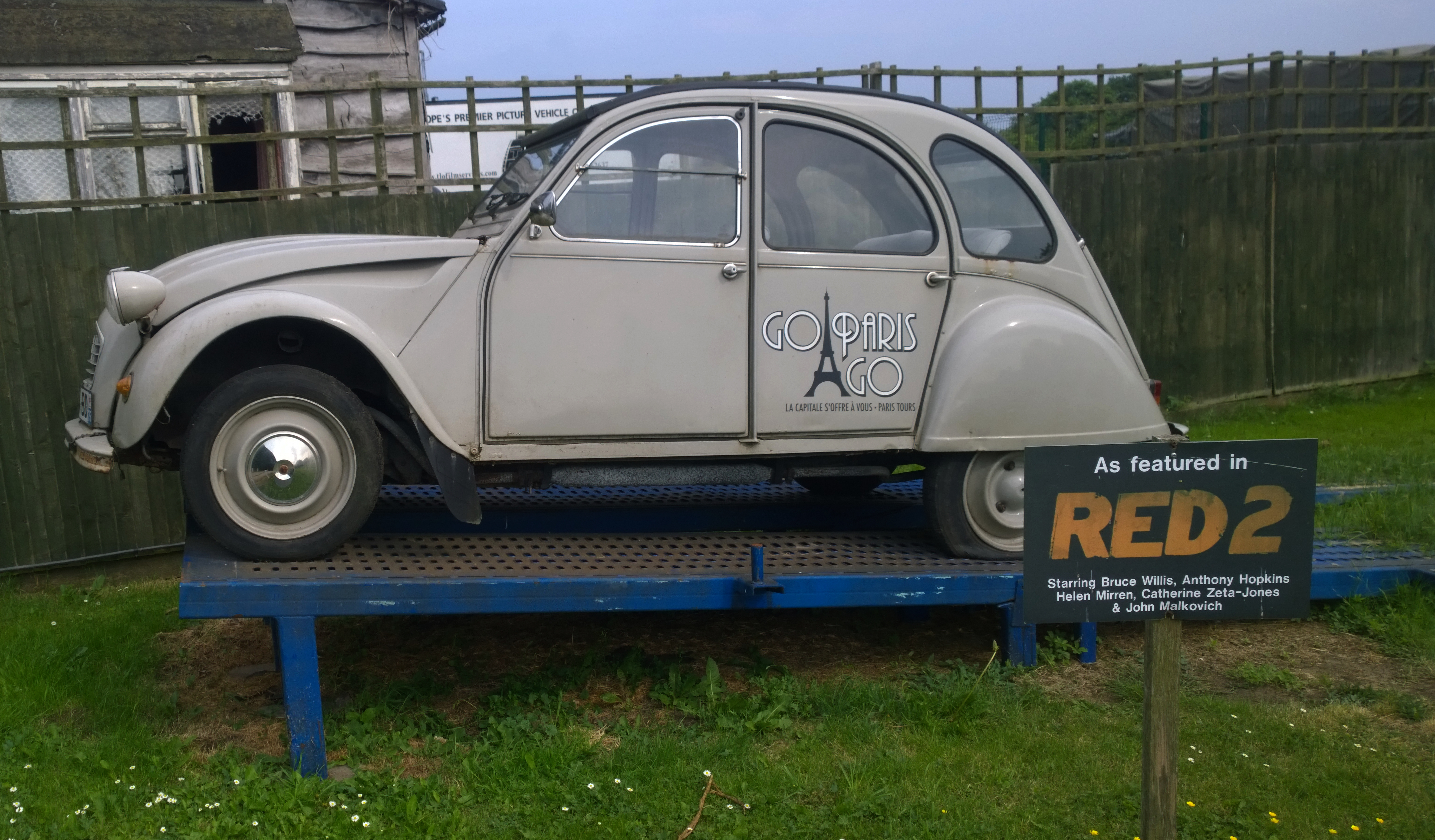 [Citreon] [2CV] From Red 2 starring Bruce Willis. This 2CV was in the car chase being driven by John Malkovich at the History on Wheels Museum Eton Wick, Windsor, UK